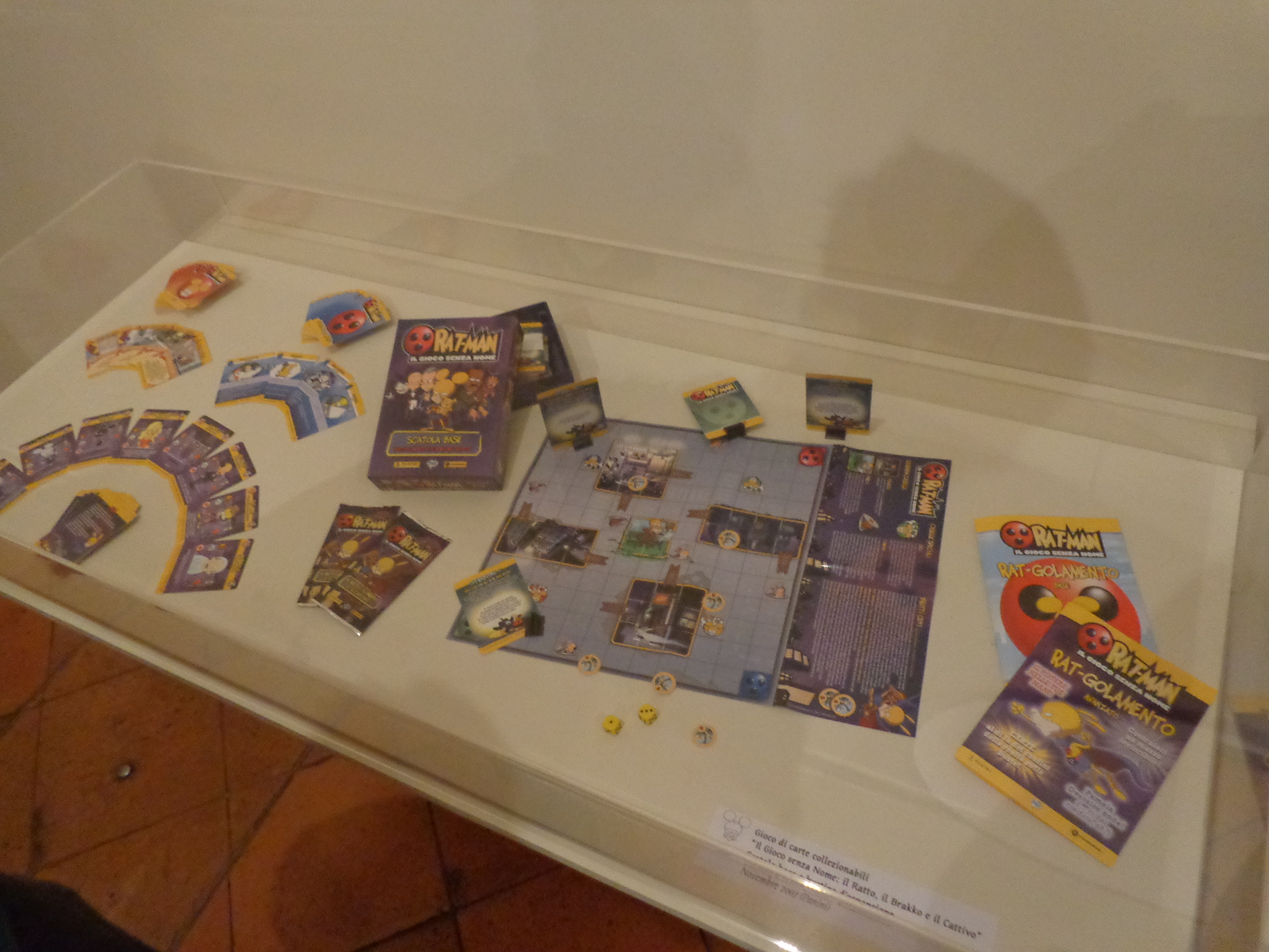 2014 Rat-Con in Parma (celebrations for the 100th issue of the comic Rat-Man)